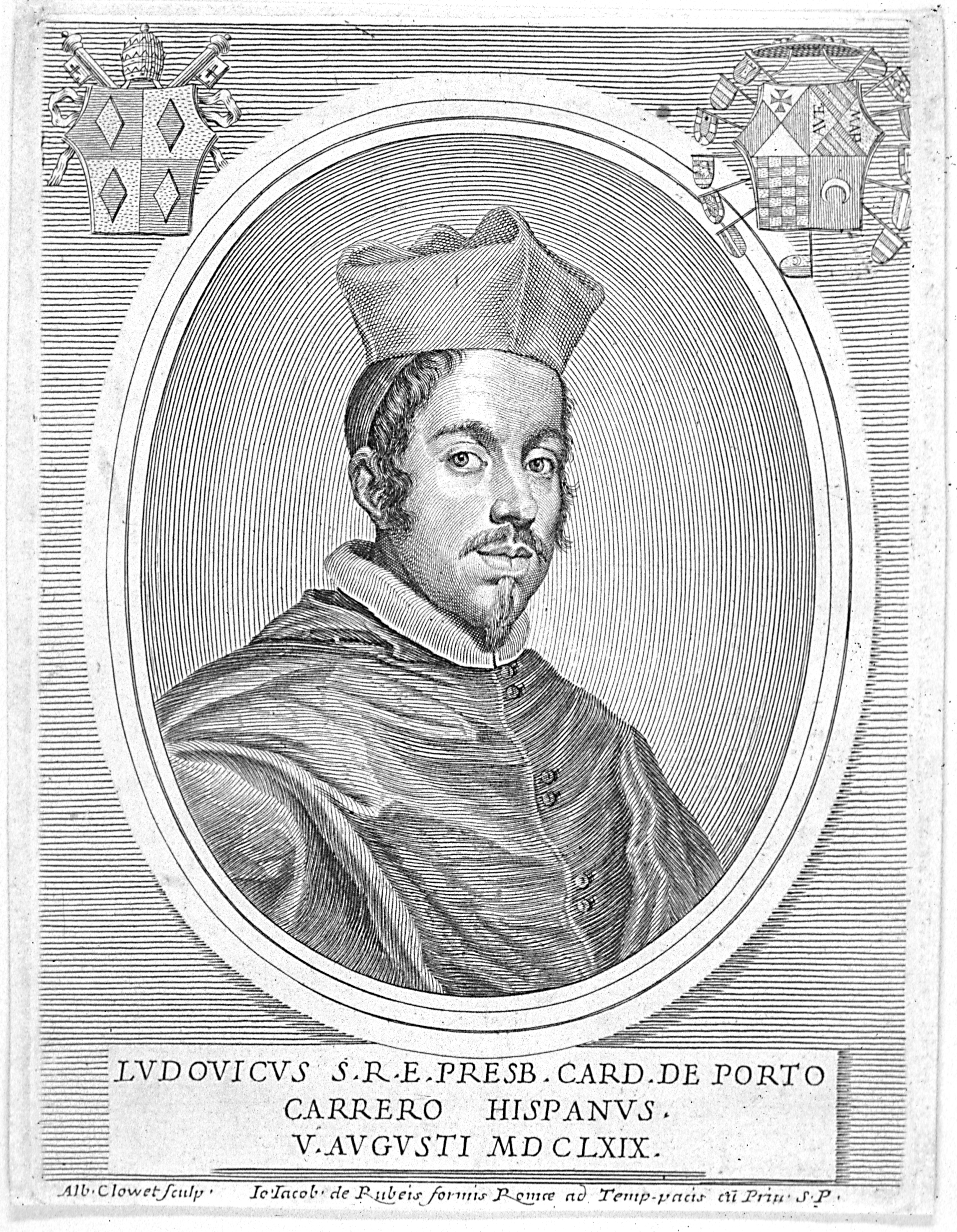 Portrait of Luis Manuel Portocarrero Guzmán (1635-1709), Cardinal y Archbishop of Toledo.